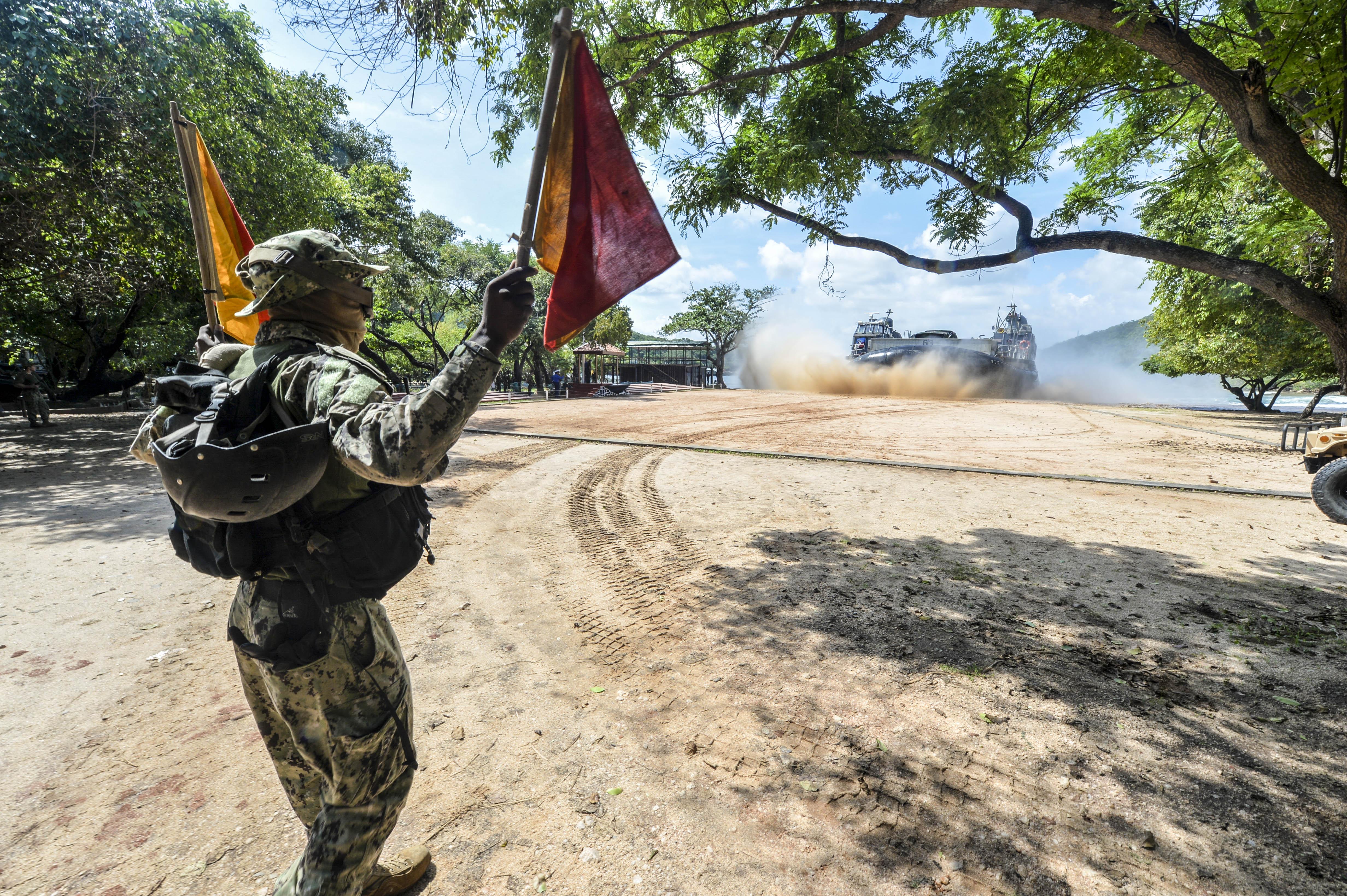 SRI LANKA (Nov. 23, 2016) Petty Officer 3rd Class Andre’ Brown, assigned to the amphibious transport dock ship USS Somerset (LPD 25), directs a landing craft air cushion onto the beach during a theater security cooperation exchange with the Sri Lankan military. Somerset and embarked 11th Marine Expeditionary Unit are conducting the exchange with Sri Lankan forces in order to enhance tactical skill sets and disaster relief capabilities while strengthening the overall relationship between the two forces (U.S. Navy photo by Petty Officer 3rd Class Amanda Chavez/Released)161123-N-LR795-168 Join the conversation: navylive.dodlive.mil